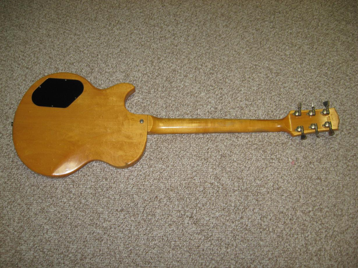 Gibson L6-S Custom back view